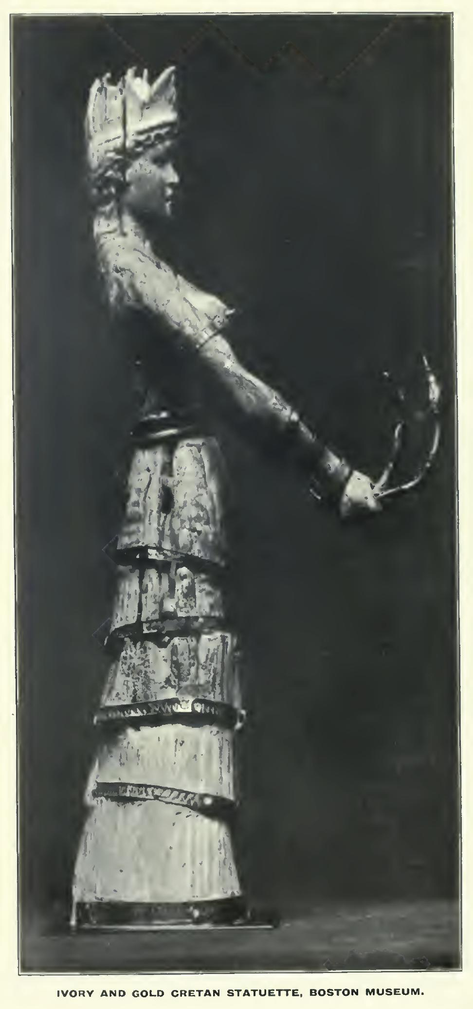 One of the most famous pieces of ancient Greek art, a gold and ivory statuette of the Snake Goddess, Museum of fine art, Boston